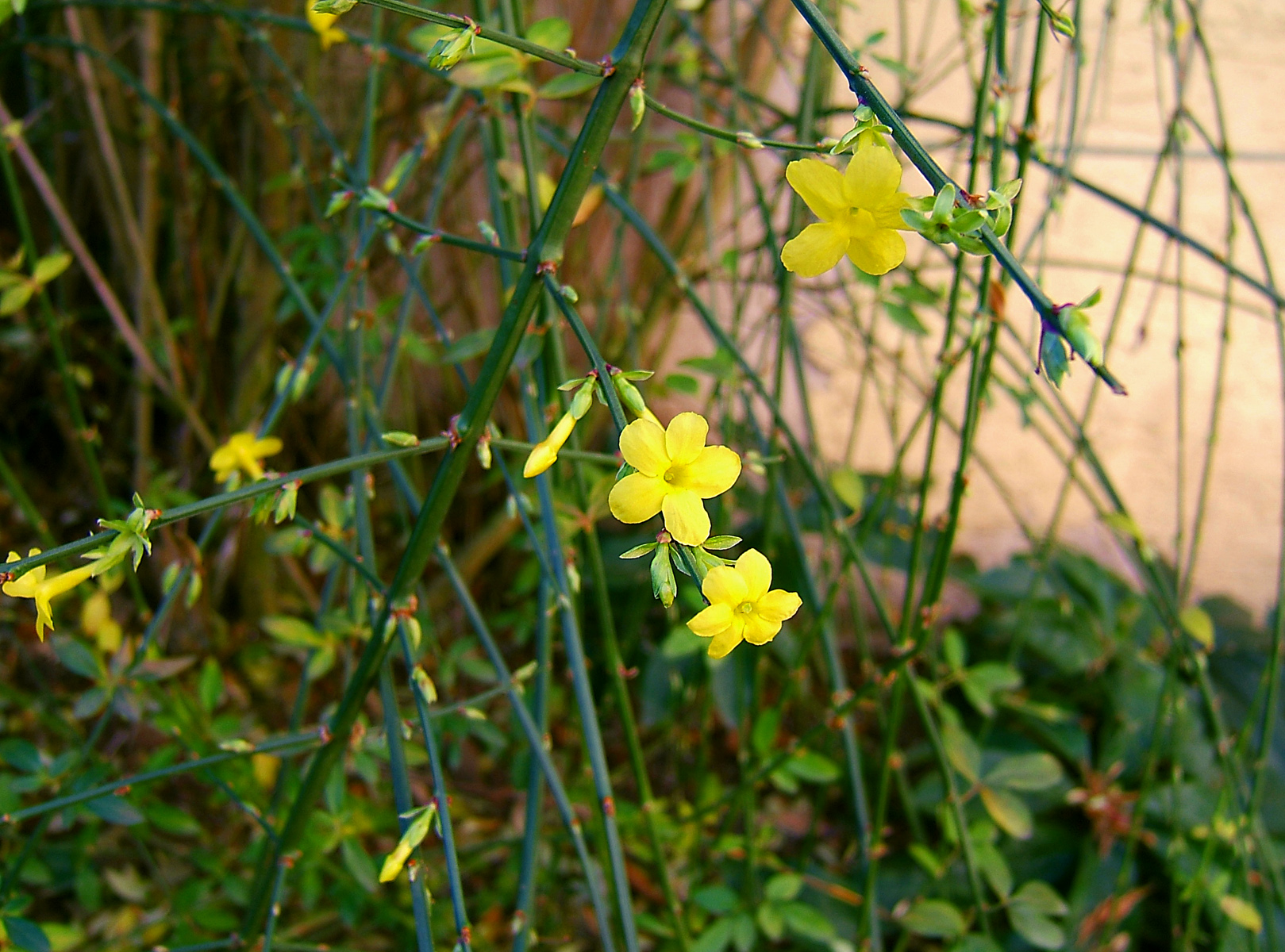 Winter Jasmine